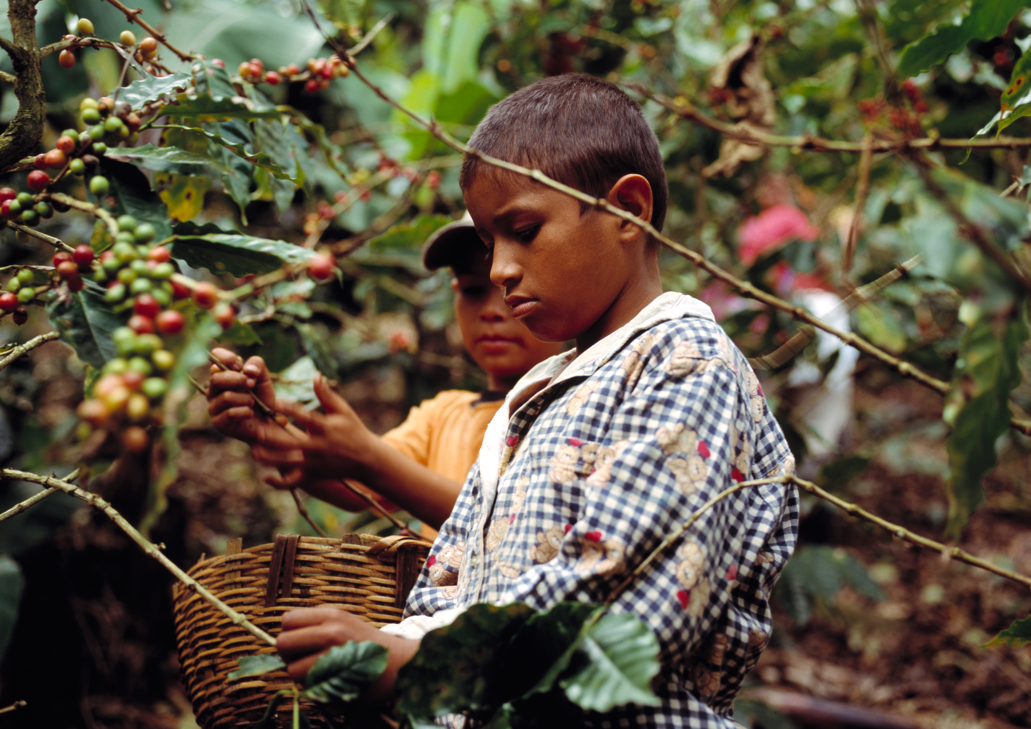 Jaime and Kaivin Ruiz working on a coffee plantation in Nicaragua. Trócaire's 2006 Lent campaign focused on the issue of child labour. (Photo: Simon Burch)